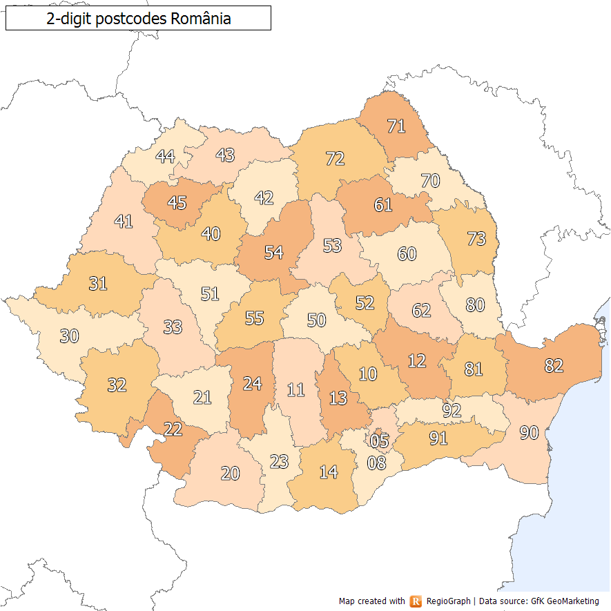 2-digit postcode areas Romania (defined through the first two postcode digits).